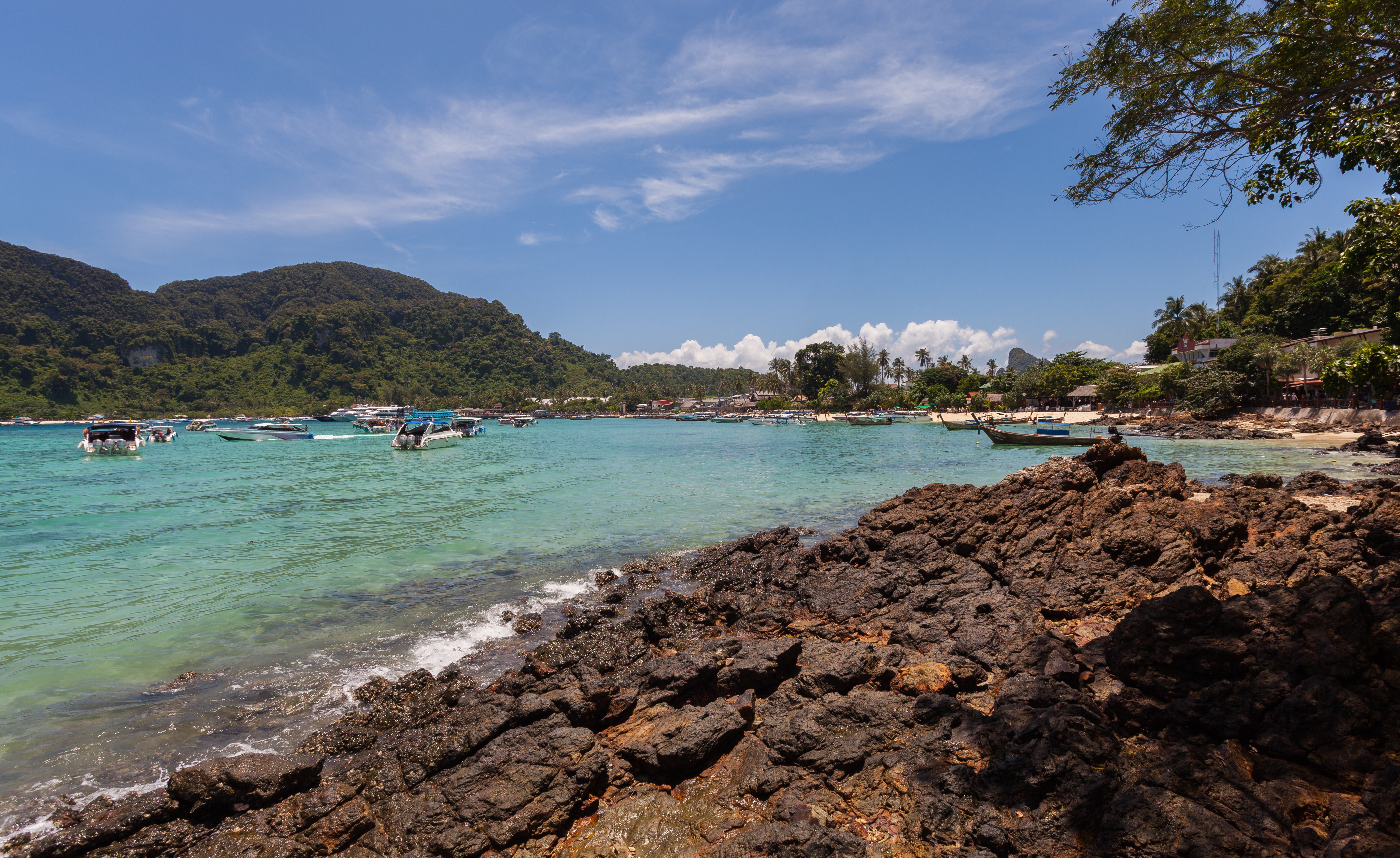 Ko Phi Phi Don Island, Thailand